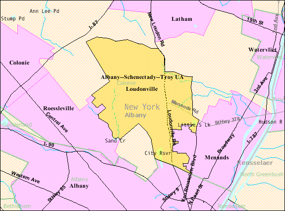 Map of the boundaries of the Loudonville, New York census designated place in 1990